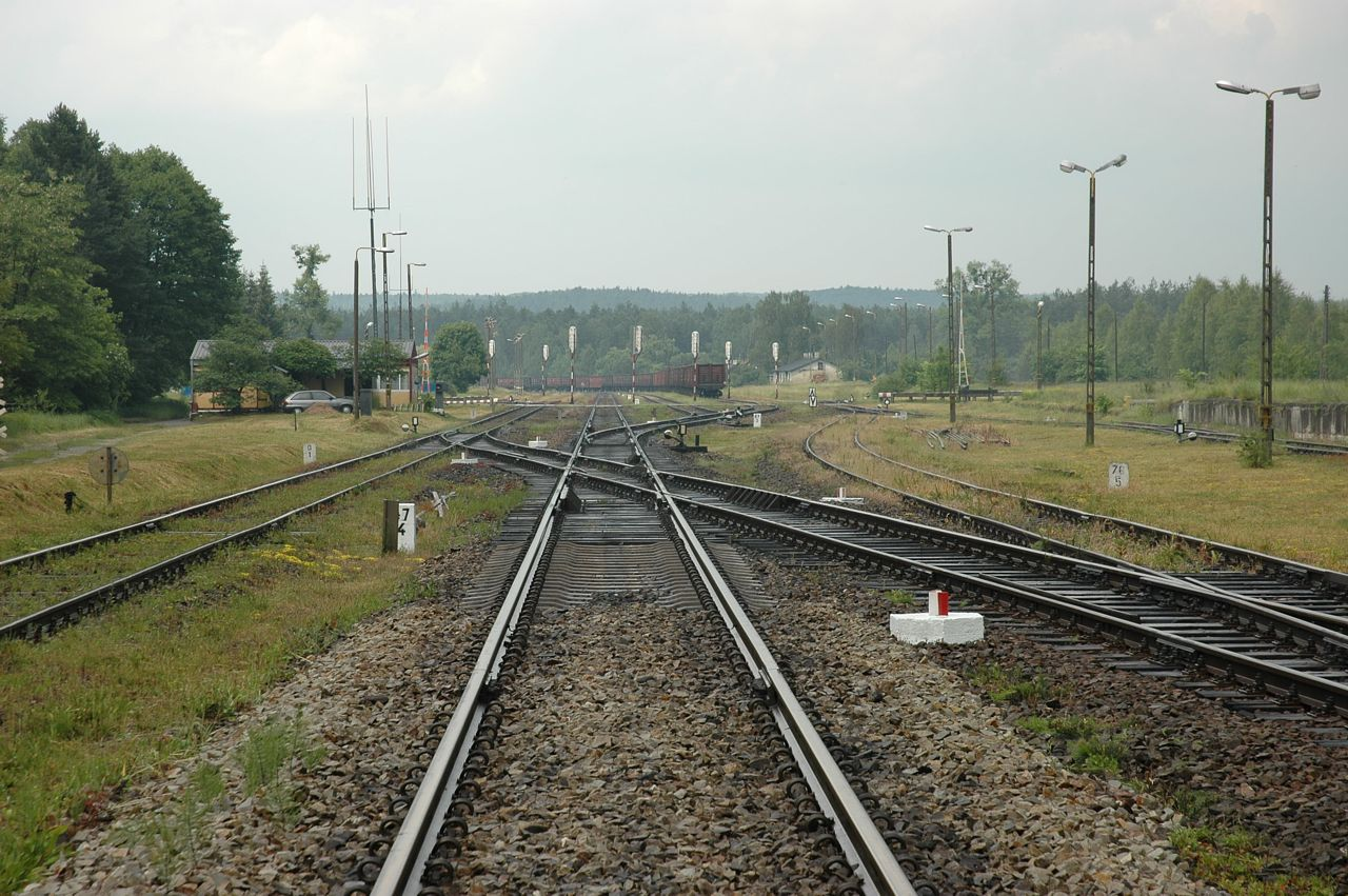 Railway station Zwierzyniec Towarowy, Poland